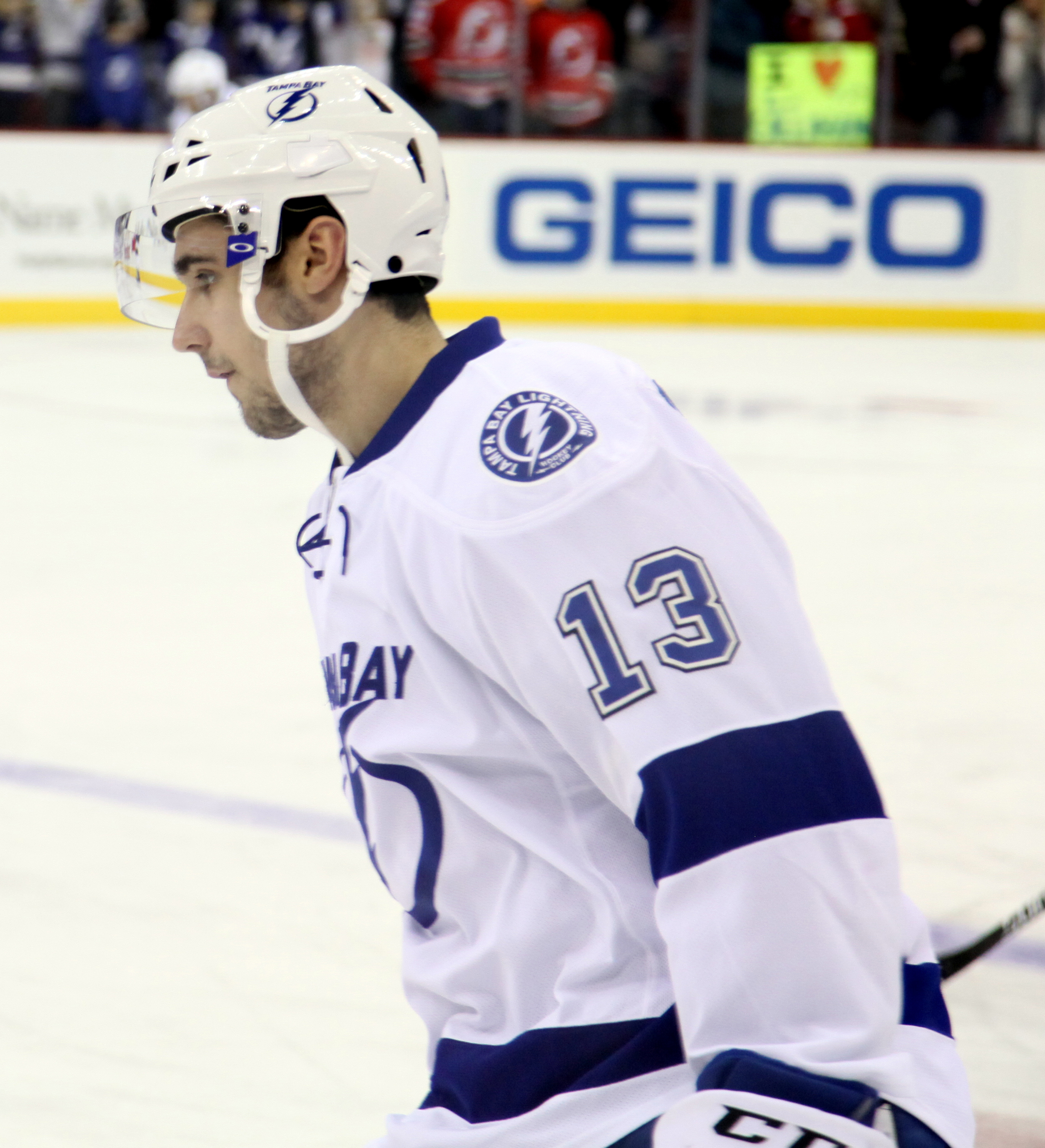 Cedric Paquette in December 2014.